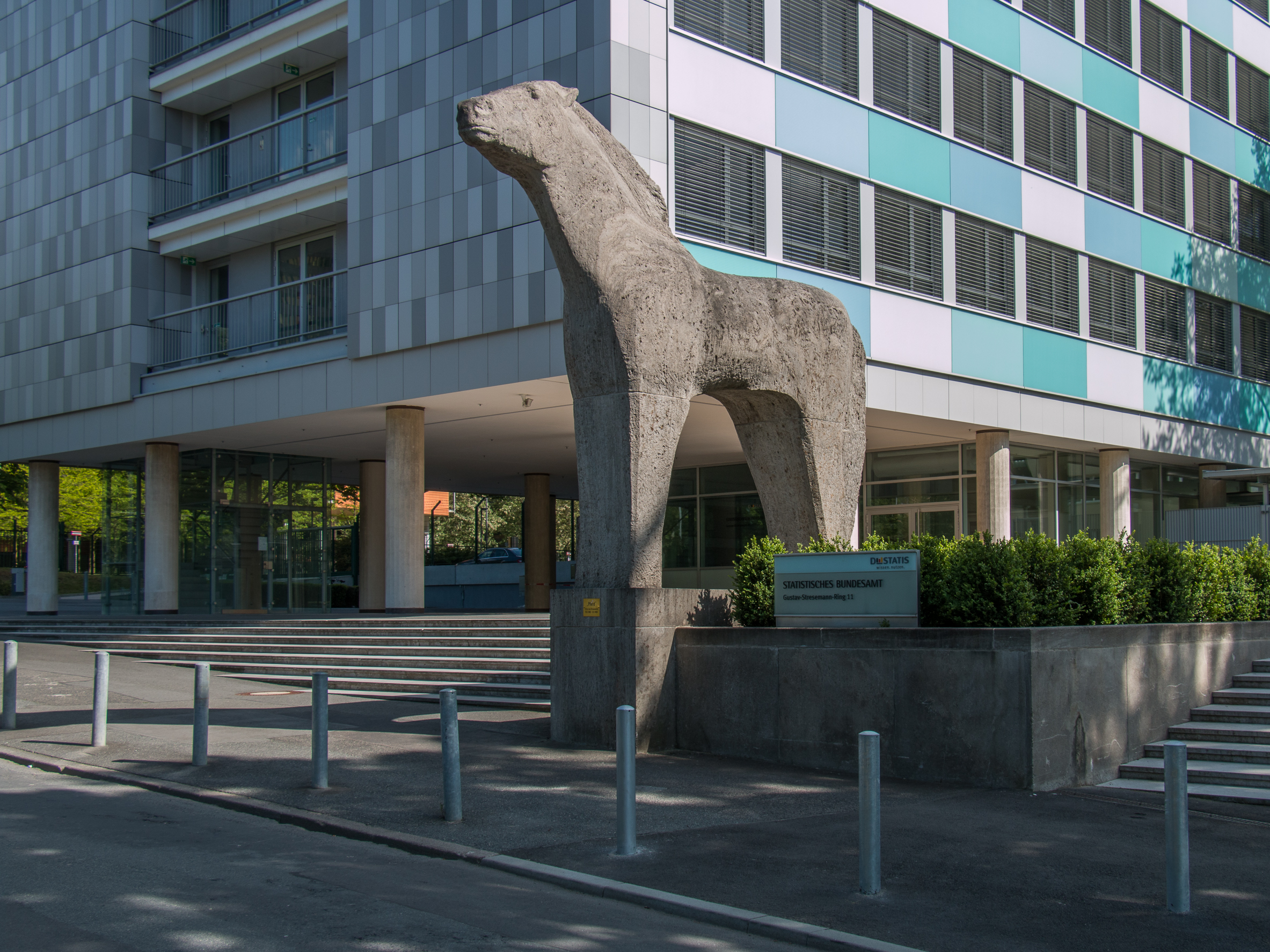 Horse sculpture by Fritz von Graevenitz in front of the Federal Statistical Office of Germany in Wiesbaden (1956)